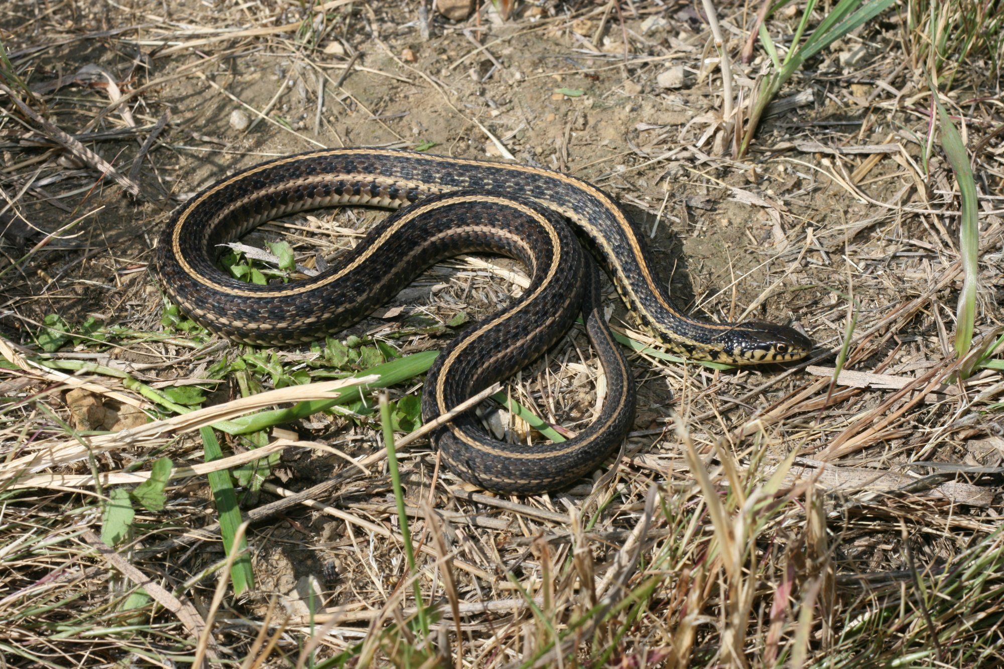 A Plains Garter Snake from Linn County, Iowa